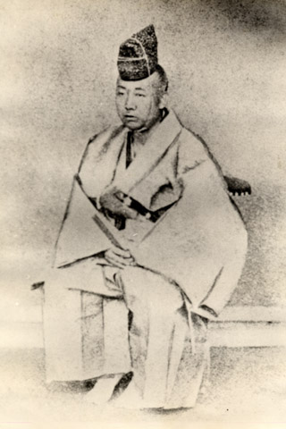 Japanese confucianist Kusumoto Tanzan (1828-1883)